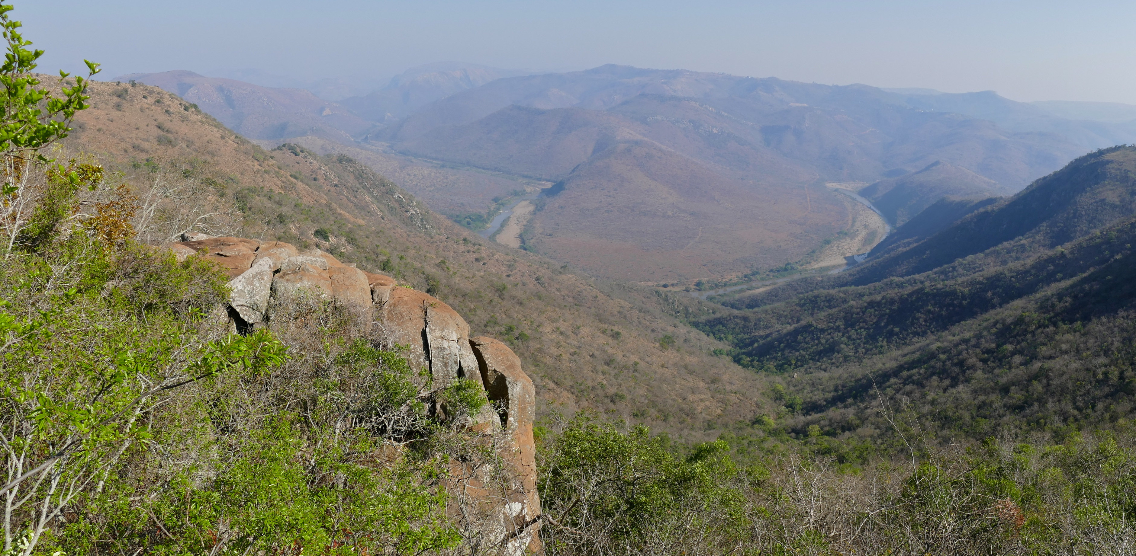 Phongolo Lookout Point, Ngulubeni Loop, Ithala Game Reserve, KwaZulu-Natal, SOUTH AFRICA